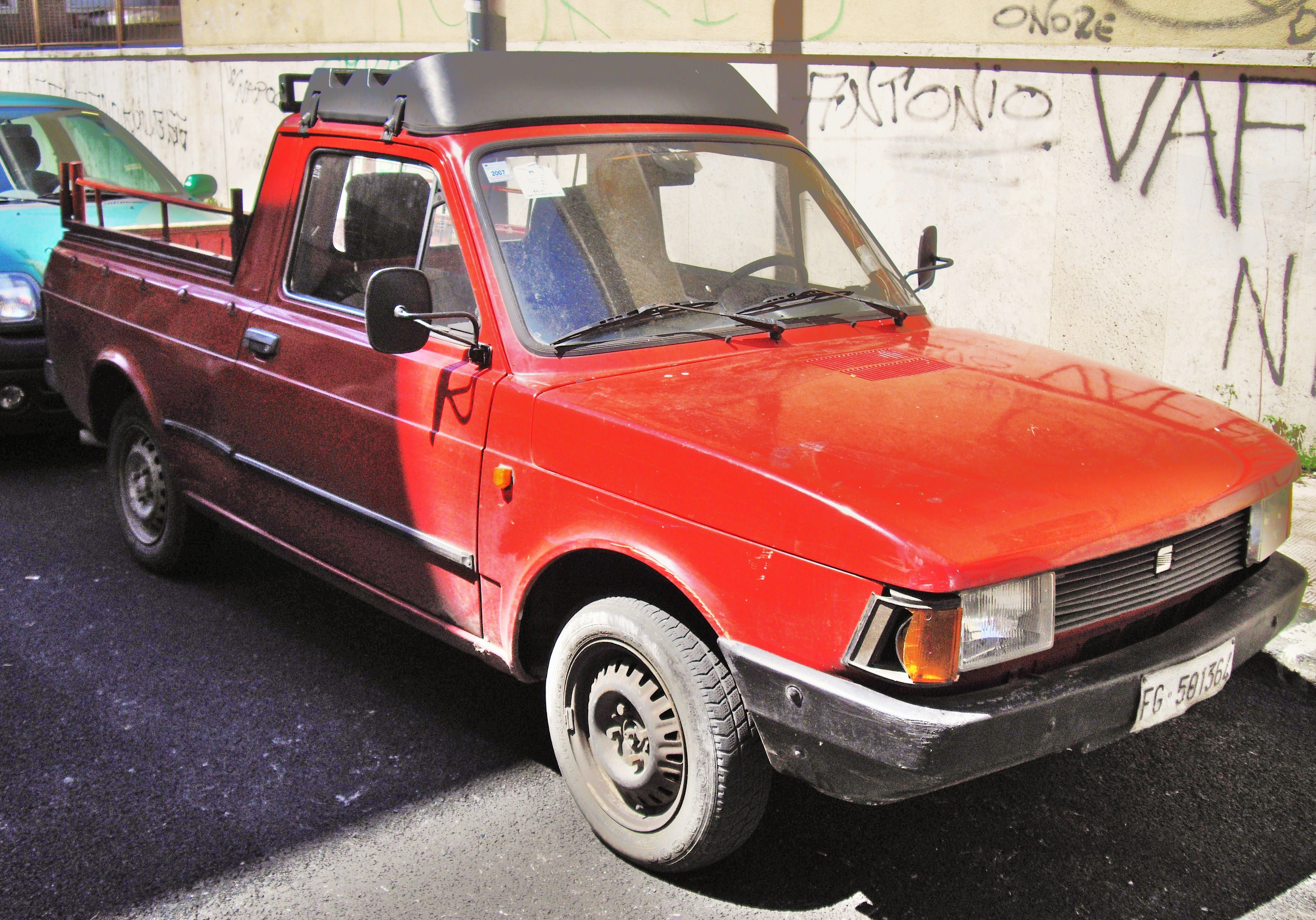 Seat Fiorino